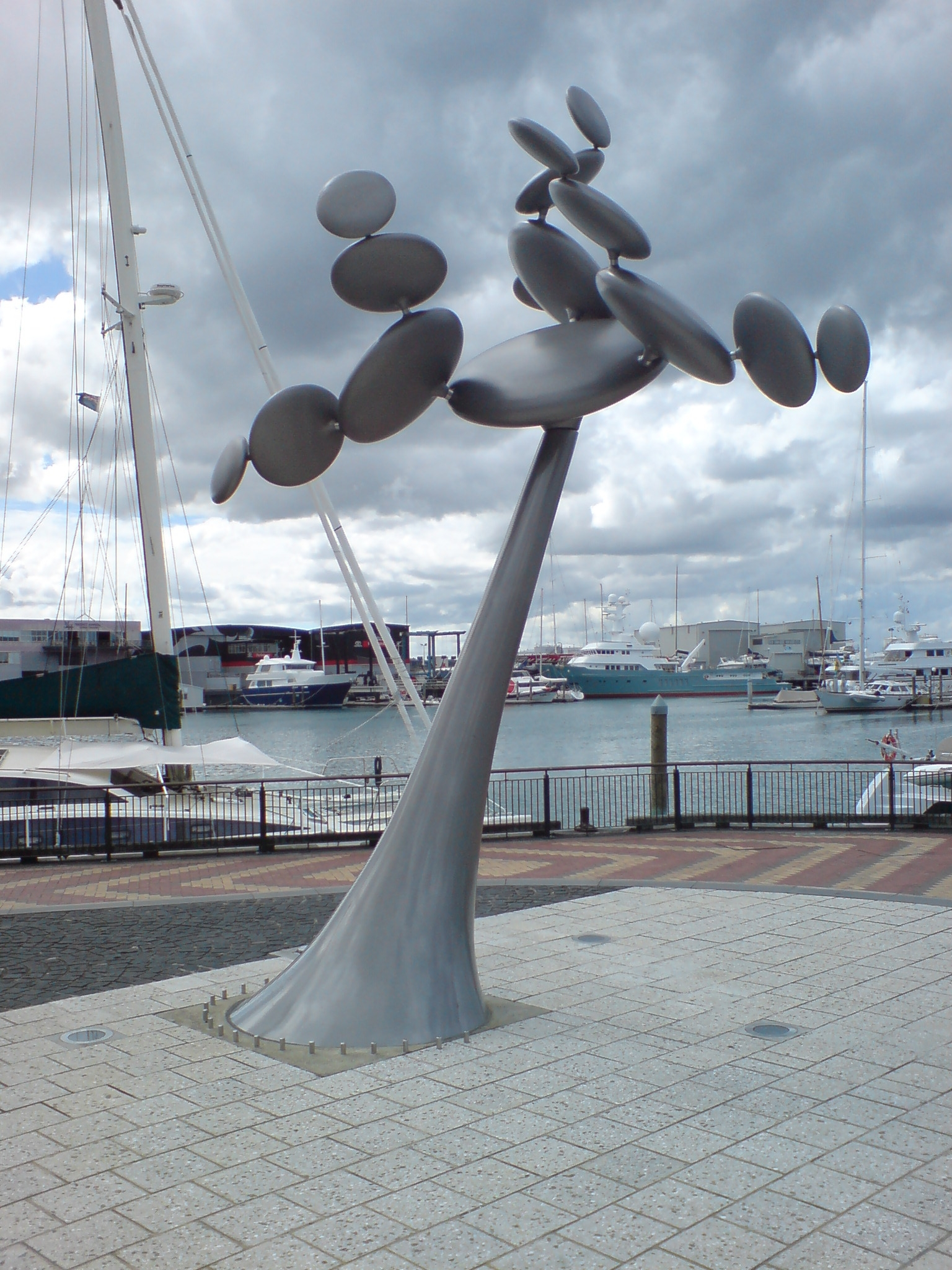 The Cytoplasm kinetic sculpture near the Viaduct Basin in the Auckland CBD, Auckland City, New Zealand.